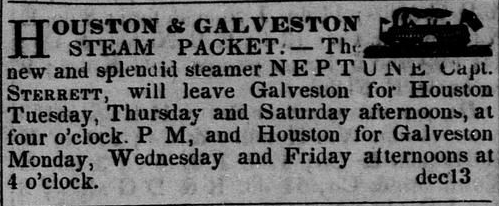 Advertisement for SB Neptune, between Houston and Galveston, 1852